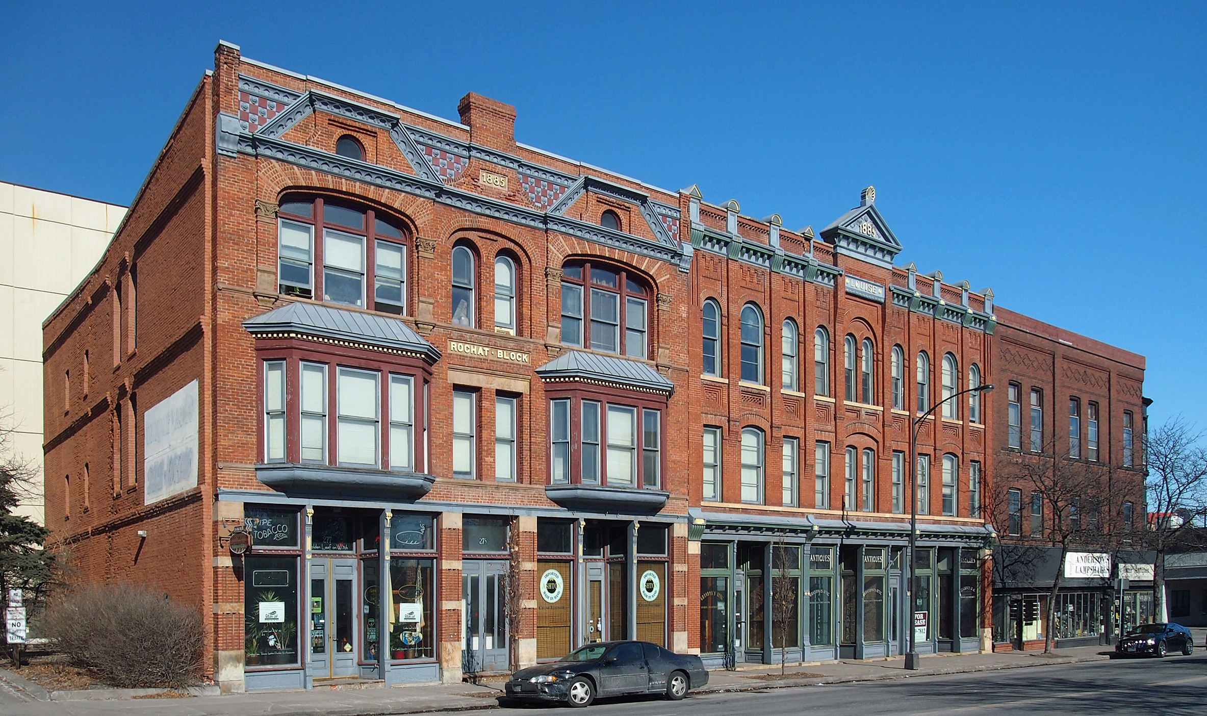 Rochat-Louise-Sauerwein Block, 261–277 7th St W, St Paul, Minnesota, USA. Viewed from the south.